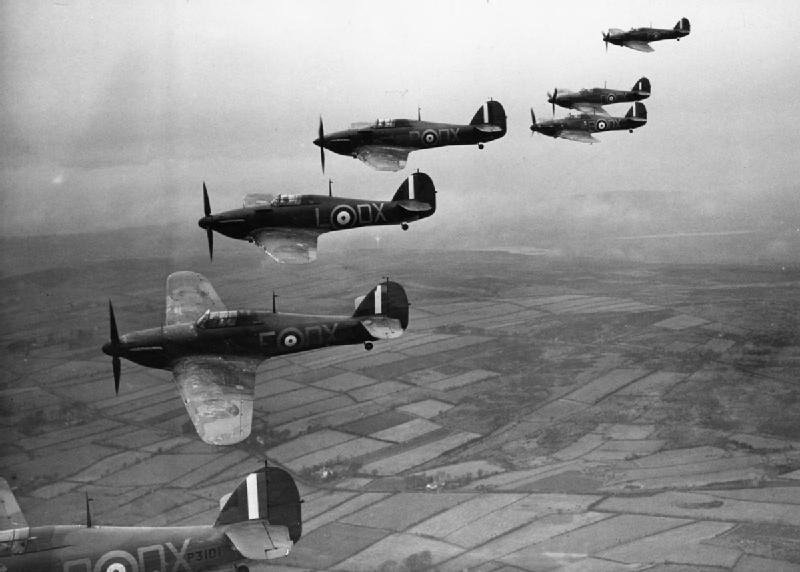 RAF Fighter Command 1940 Hurricane Mk Is of No. 245 Squadron, in flight from Aldergrove, near Belfast, November 1940.